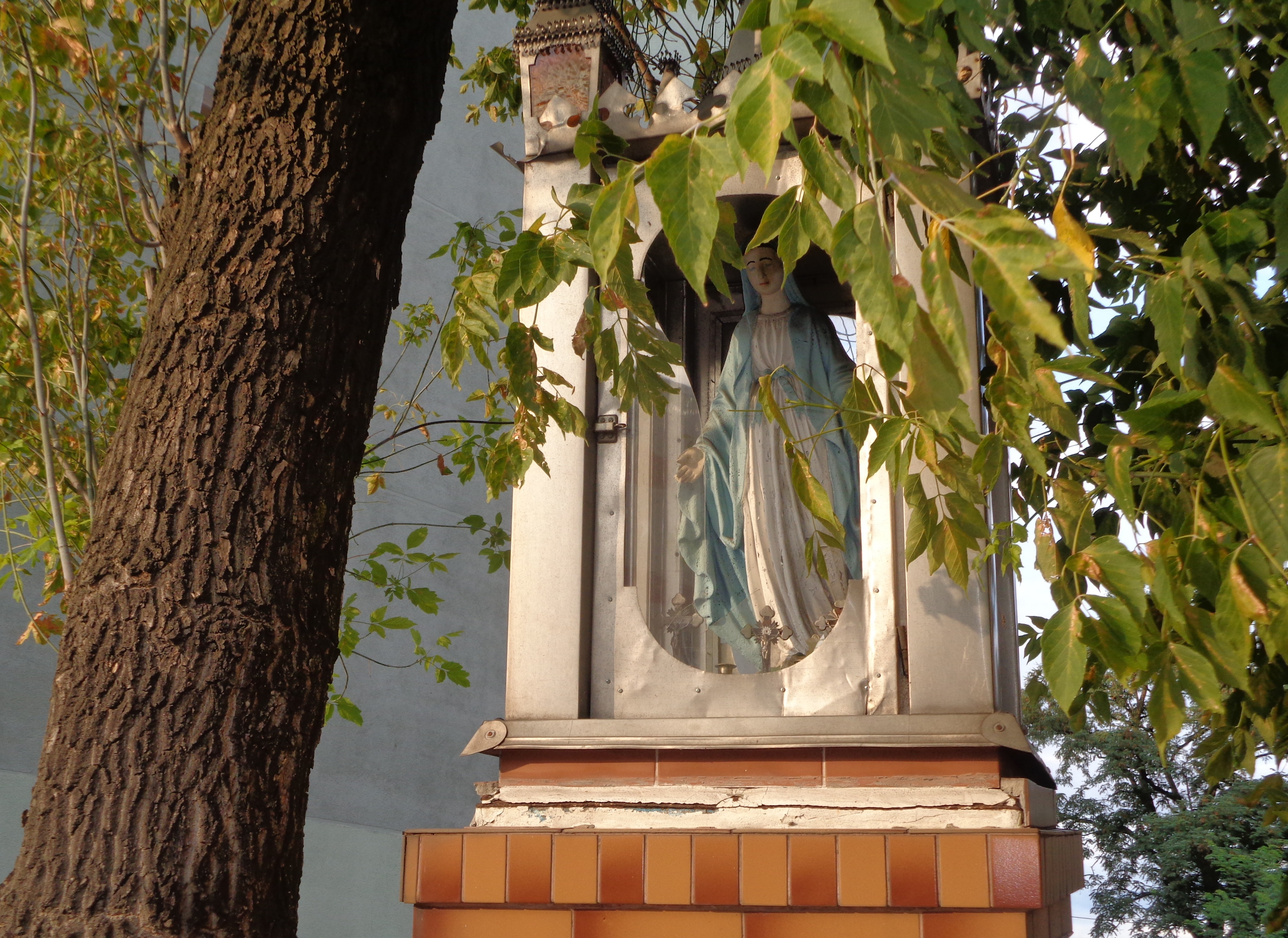 Figure of Mary Mother of God in wayside shrine at Długa Street in Włocławek.